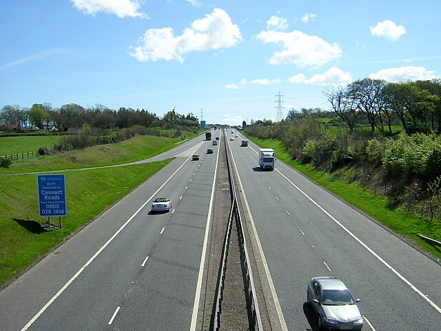 M77 South of Newton Mearns